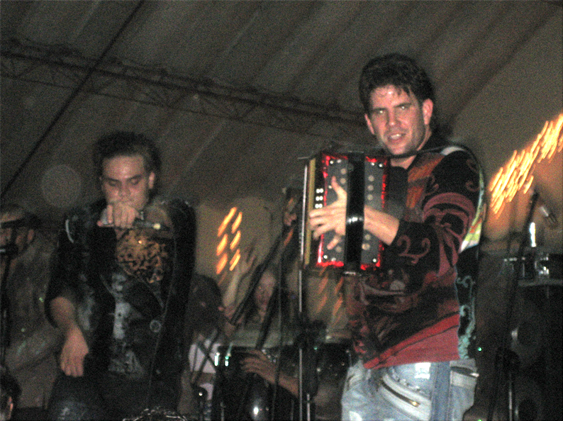 Colombian Vallenato singer Silvestre Dangond and Vallenato accordion player Juan Mario De la Espriella, also known as "Juancho"